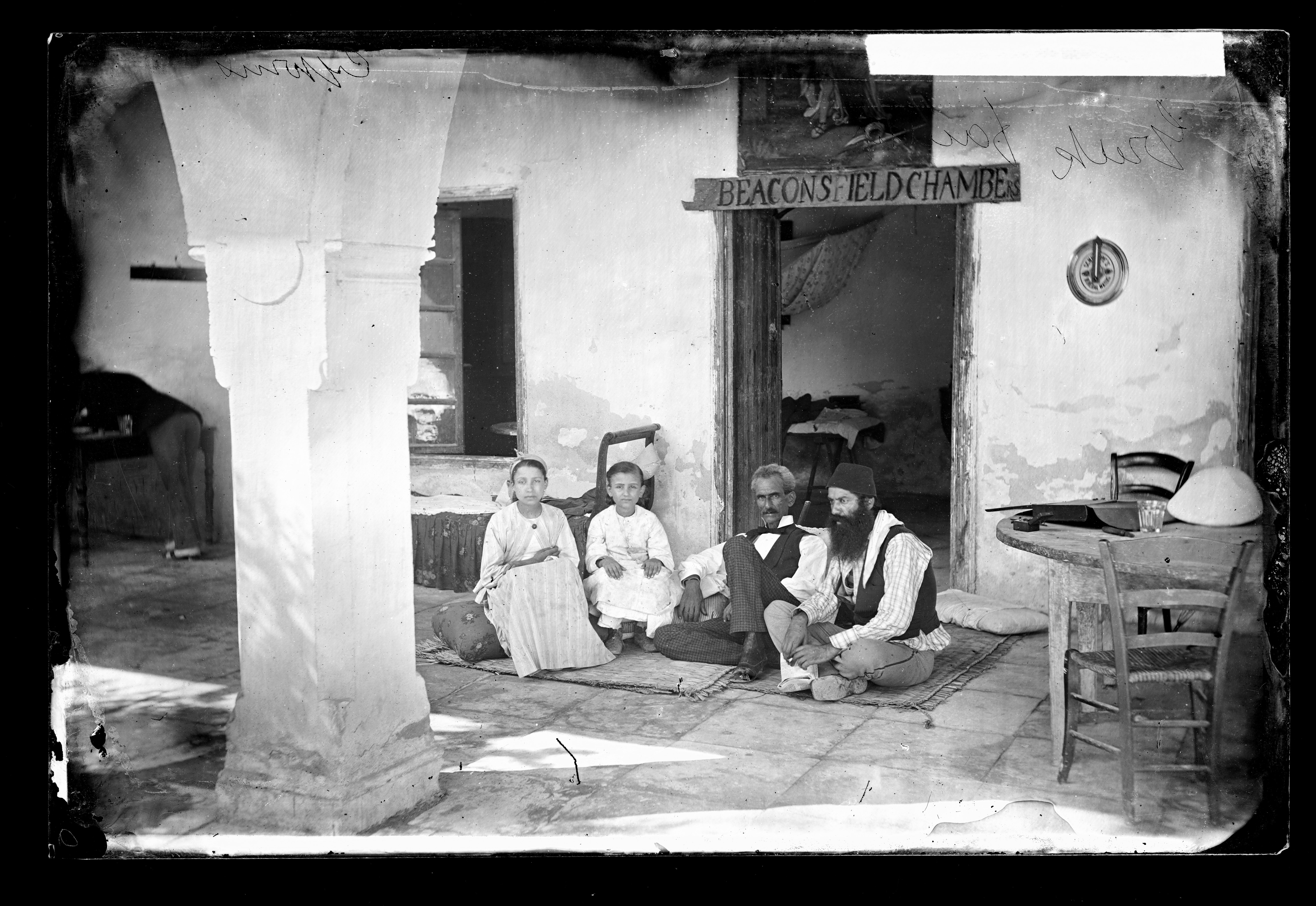 Cyprus. Photograph by John Thomson, 1878. Iconographic Collections Keywords: J. Thomson